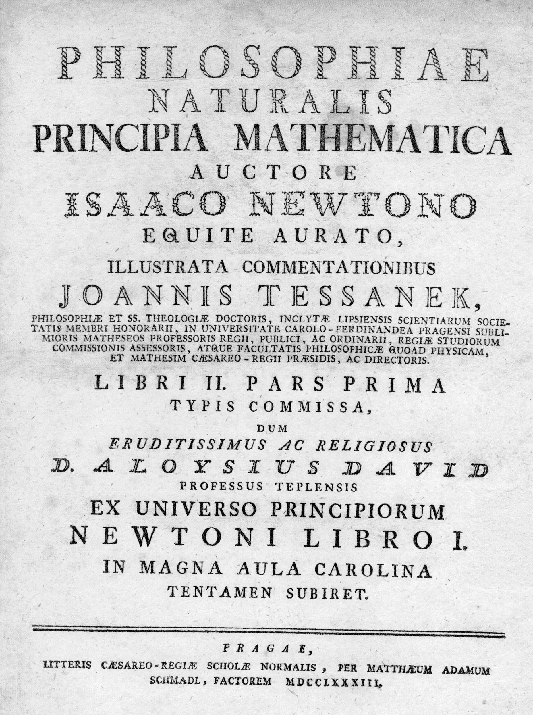 This image represents the first page of Isaac Newton's 'Philosophiae Naturalis Principia Mathematica' commented on by Joannis Tessanek in 1783